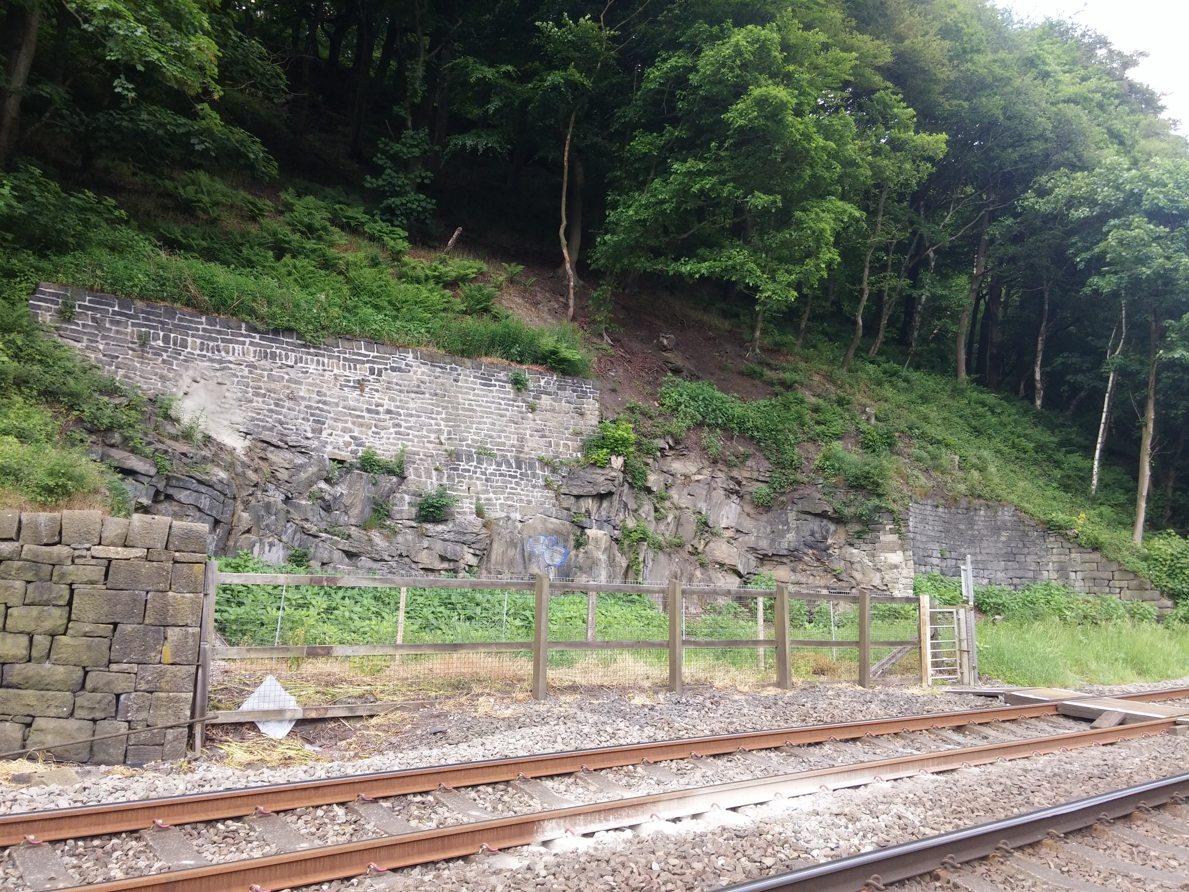 Location of the former Eastwood Railway Station between Todmorden and Hebden Bridge stations in Calderdale, UK.